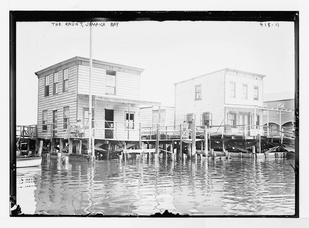 The Raunt